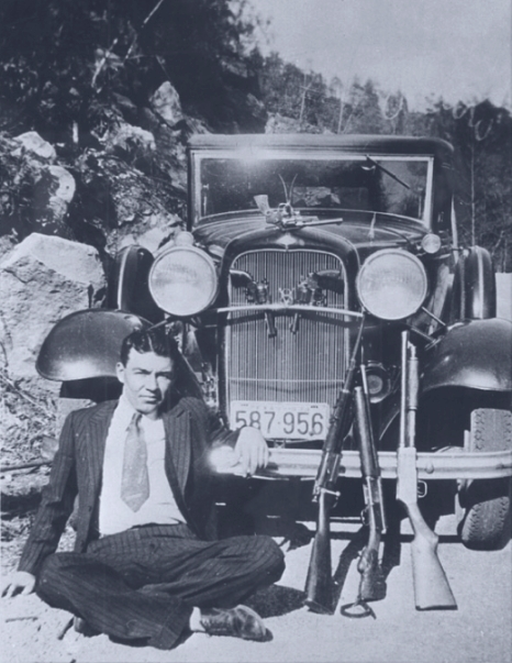 WDJones and Clyde Barrow in 1933, from FBI Barrow file